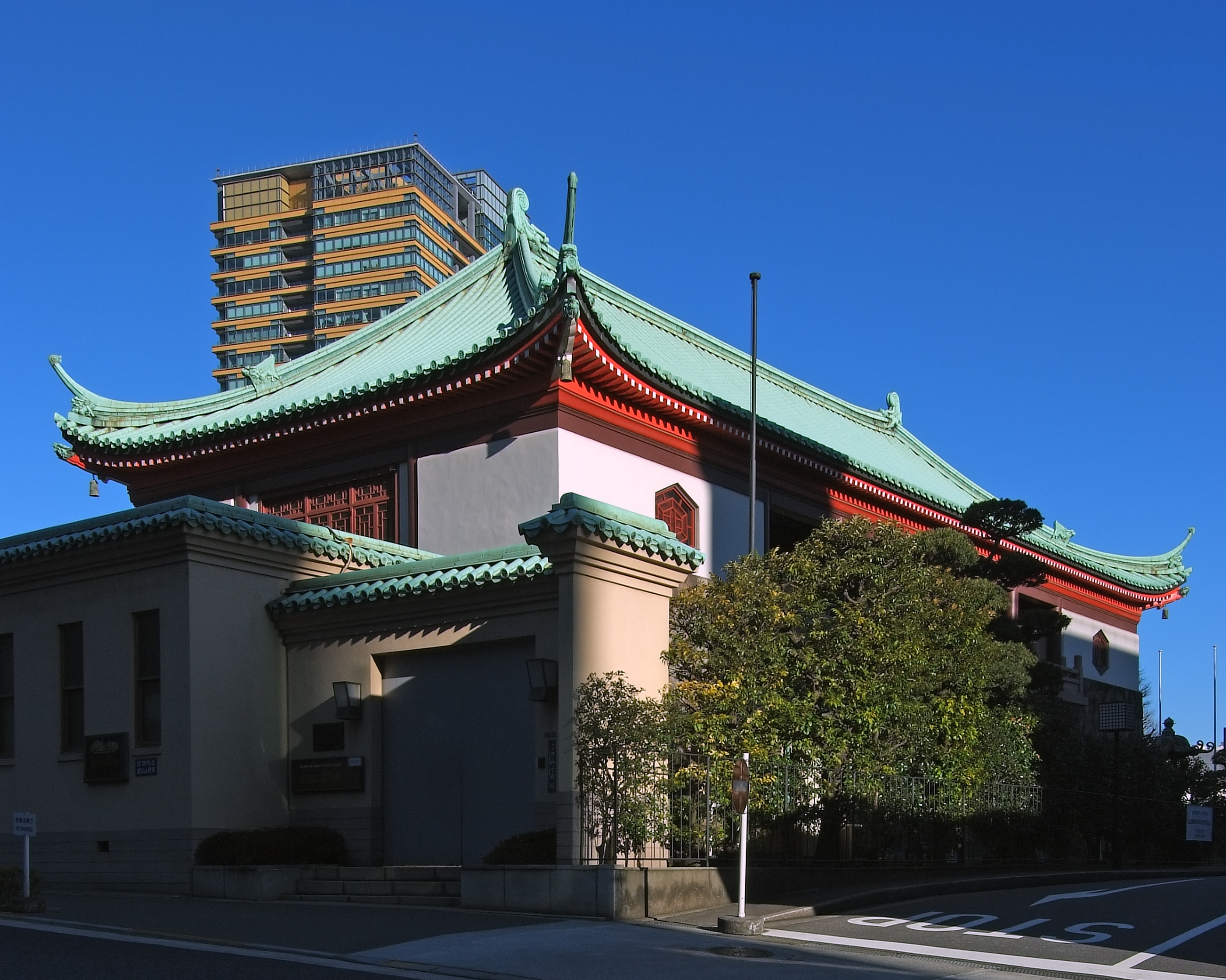 Okura Shukokan Museum of Fine Arts, at Minato-ku Tokyo Japan, design by Chuta Ito in 1928.